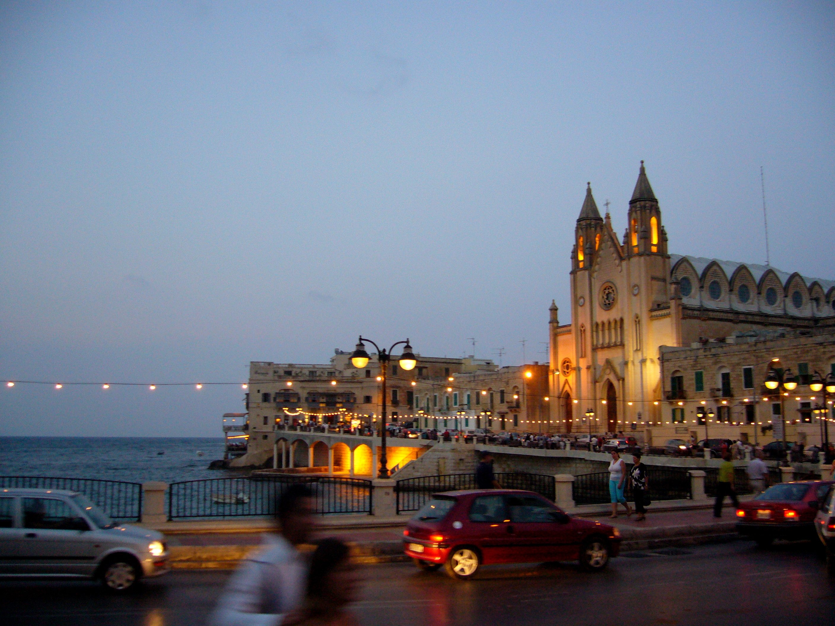 St. Julian's, more specifically Balluta Bay. We are going to find something to eat first, and then we're off to the casino.